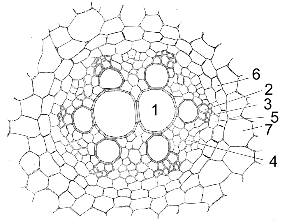 Vascular Bundle in the root of Allium cepa. Legend: xylem metaxylem protoxylem phloem pericycle endodermis primary cortex